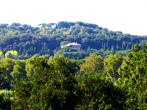 Roma Villa Madama Raphael's unfinished project for Leo X de' Medici, the Villa Madama sits halfway up Monte Mario not far from Foro Italico. Here the treaty creating the European Union was signed.